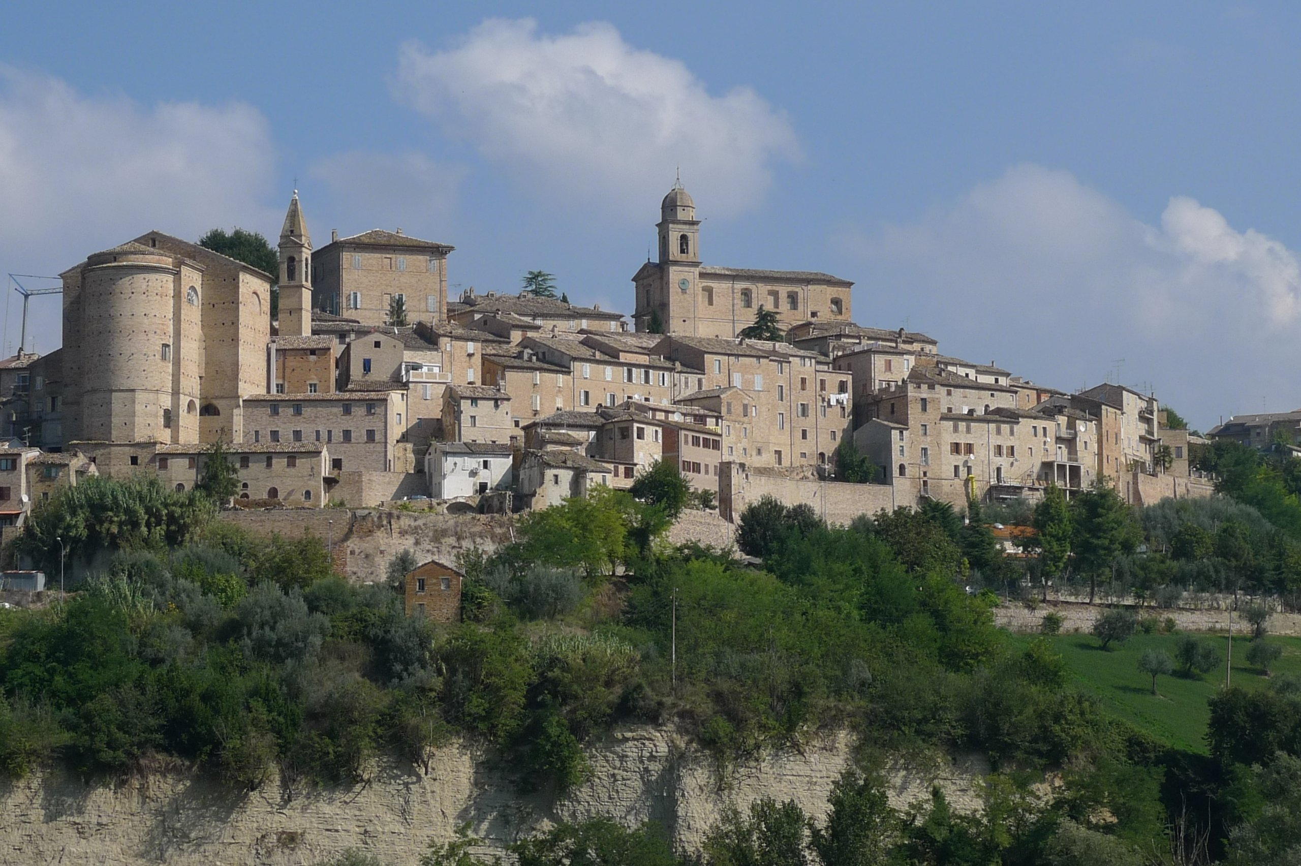 Montottone, general view Montottone, general view